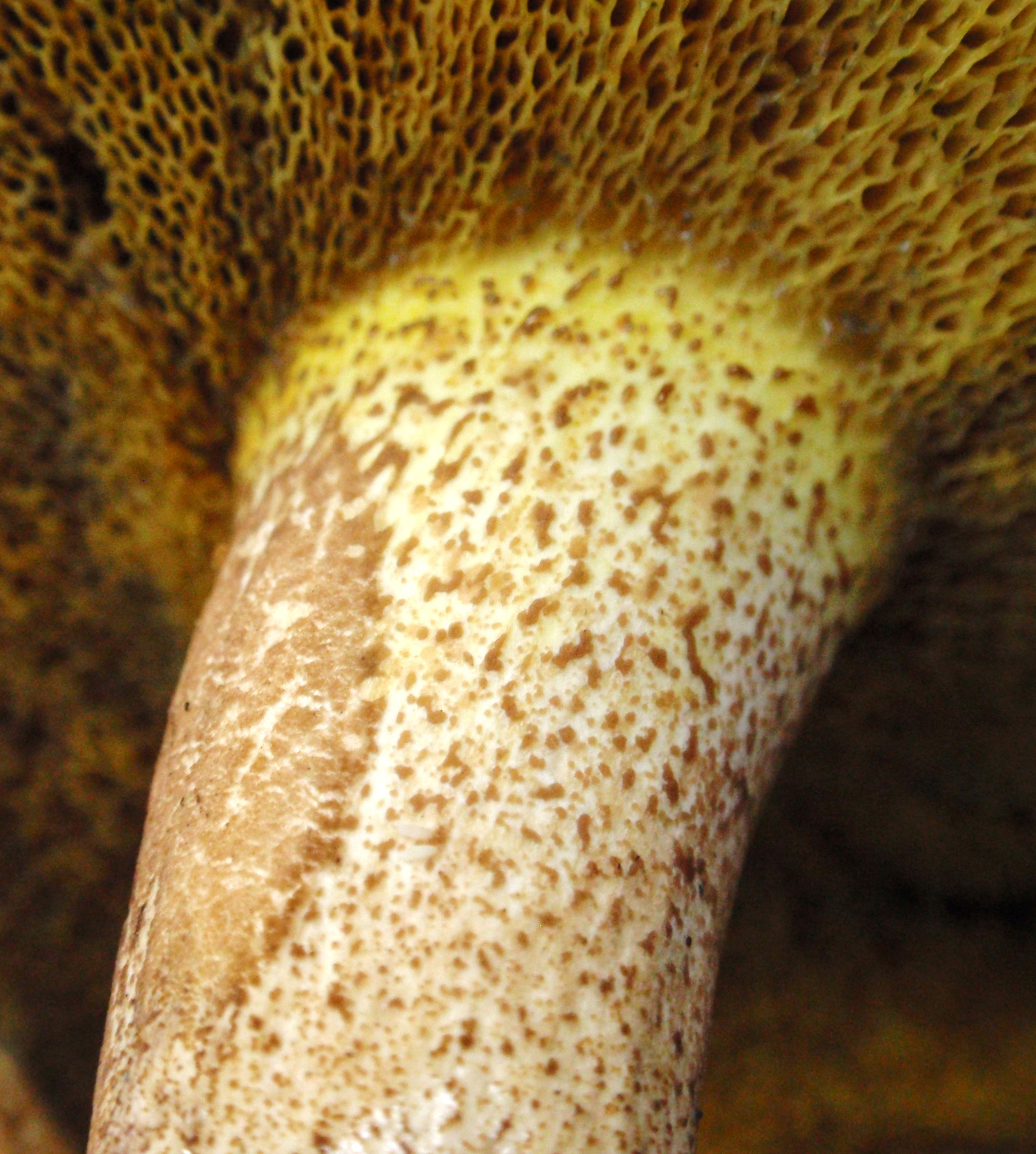 Close-up of the glandular dots on the stipe of the bolete mushroom Suillus pungens Thiers & A.H. Sm. Specimen photographed in Foster City, California, USA. Original photo cropped by uploader.